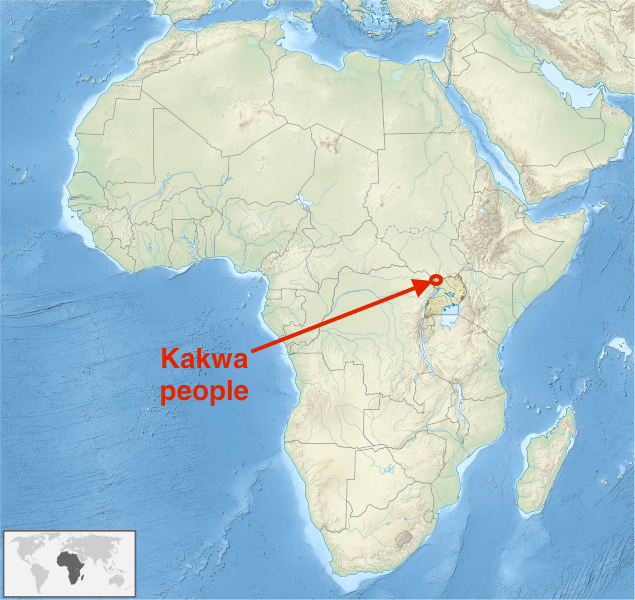 Kakwa people are an ethnic group found in northwest Uganda, and nearby border regions of South Sudan and Democratic Republic of the Congo. This image is a derivative work on the following image available on wikimedia under creative commons license: FIle:Uganda in Africa (relief).svg